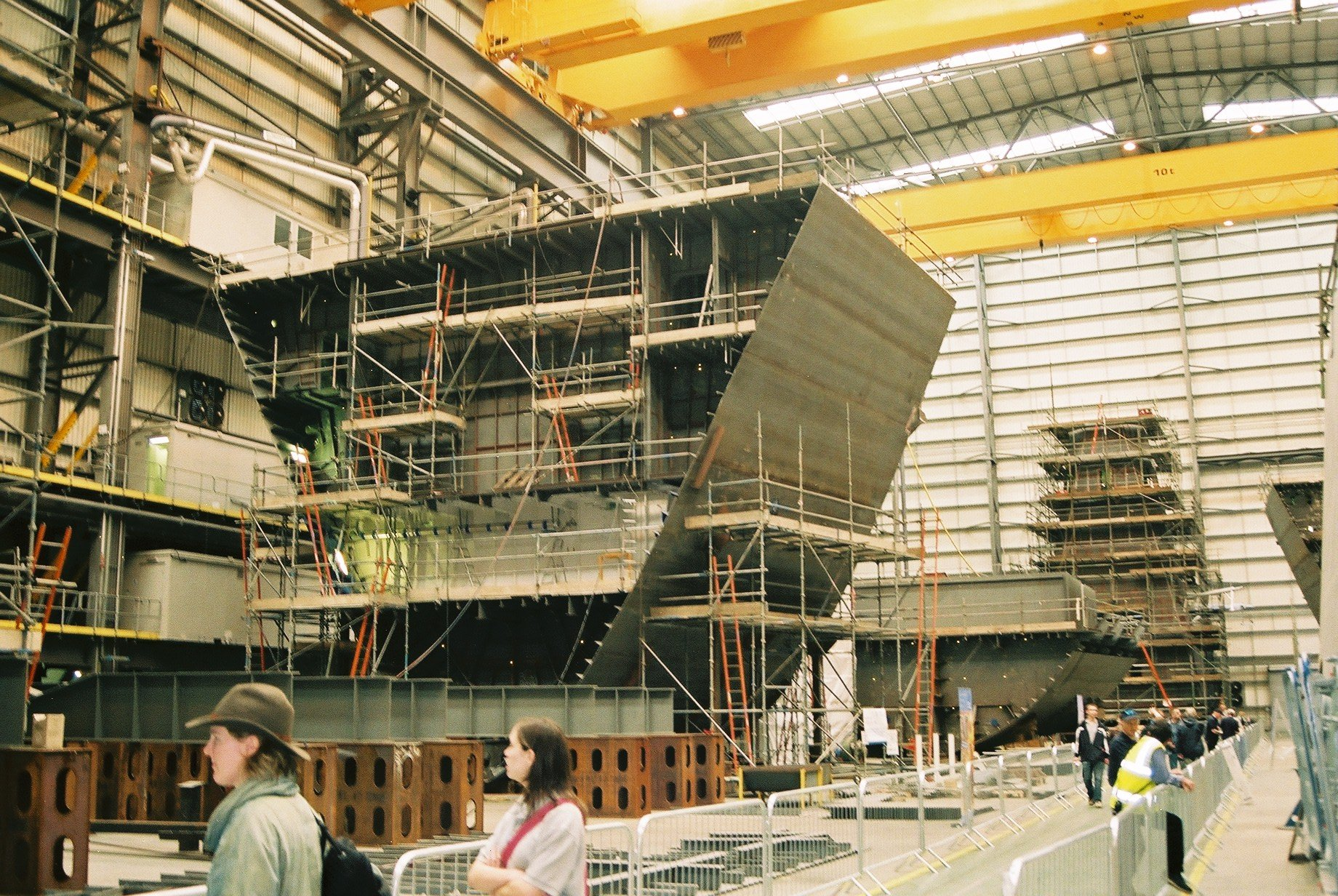 I, Adrian Jones, am the author of this photograph. I give full consent for this image to be public domain and used freely. It was taken at HMNB Portsmouth on Saturday July 2nd 2005. This image may also be found along with others on my website: According to the uploader: VT Group plc, which owns the yard, did allow photography in the areas photographed. Nothing in those photographs is in a classified or secret area.